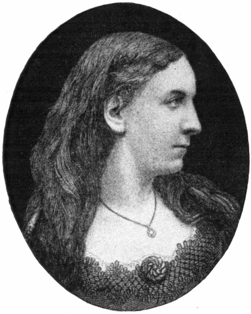 From "Memoirs of life and literature" by W. H. MALLOCK; published 1920. No source for the photograph listed there. The photograph is obviously from years prior to Ouida's death in 1908 age 69, so it is likely that the picture is also Public Domain outside the US. Thanks to Peter Vachuska for the scan